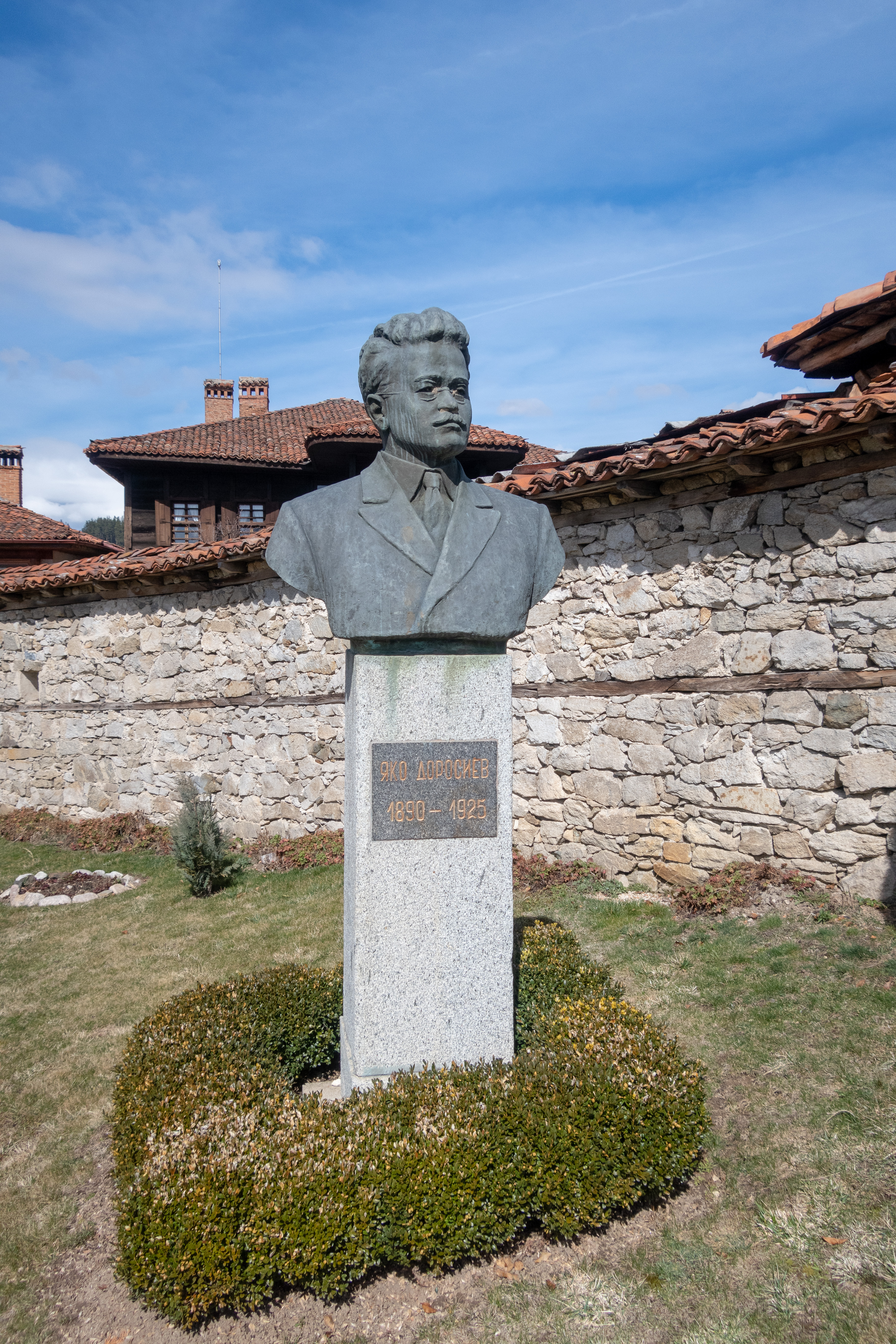 Enlightened Center, Koprivshtitsa